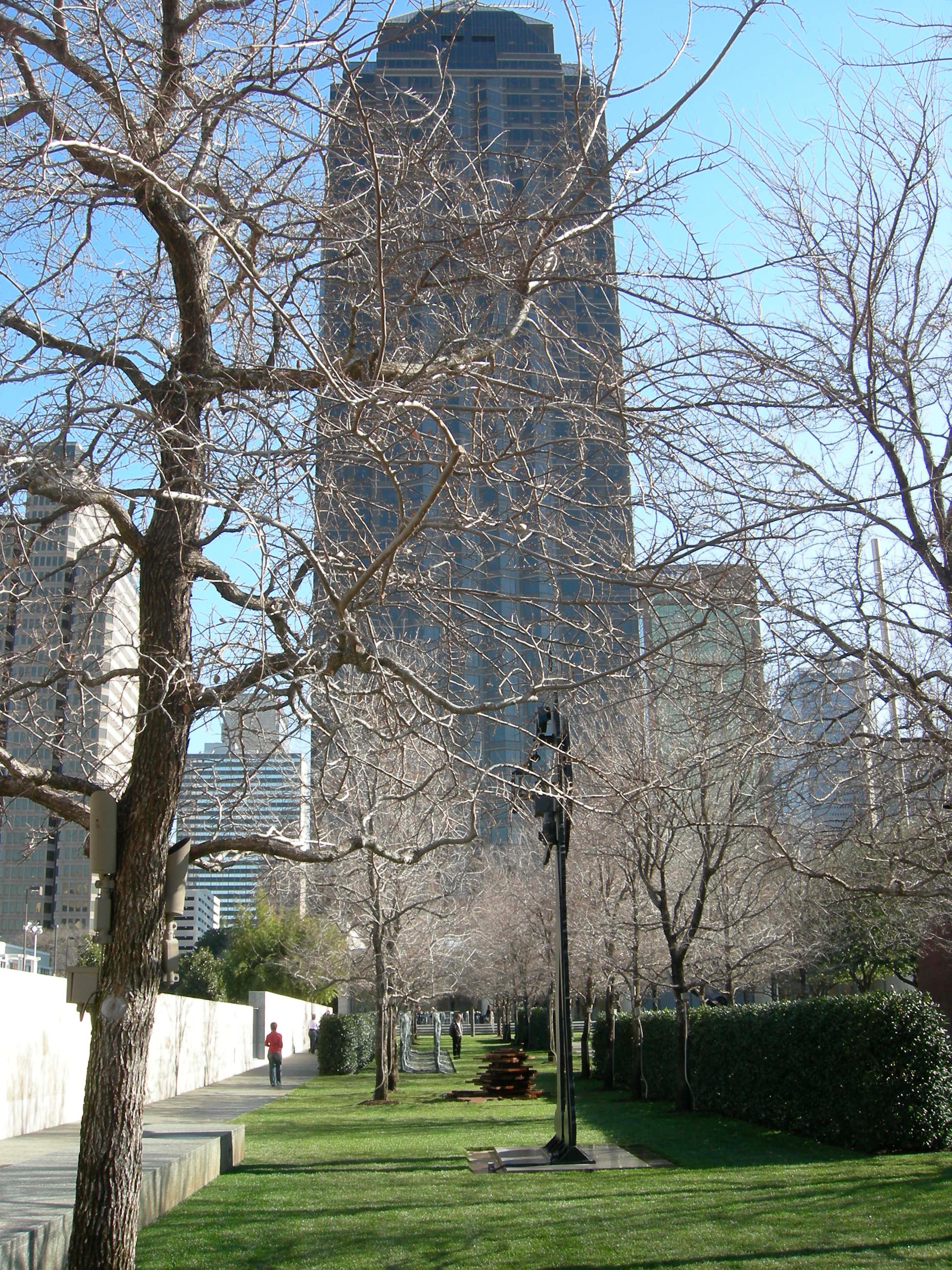 Sculpture garden of the Nasher Museum, Dallas, Texas.